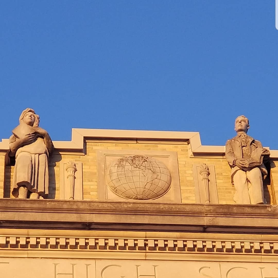 A close-up of the statues and reliefs that adorn the front-facing part of Green Bay East High School.. The school's name is visible just below. The statues were subject for years to student vandalism, and are reinforced in the head.